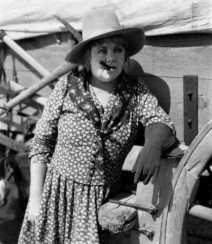 May Boley in Fighting Caravans - publicity still (cropped)